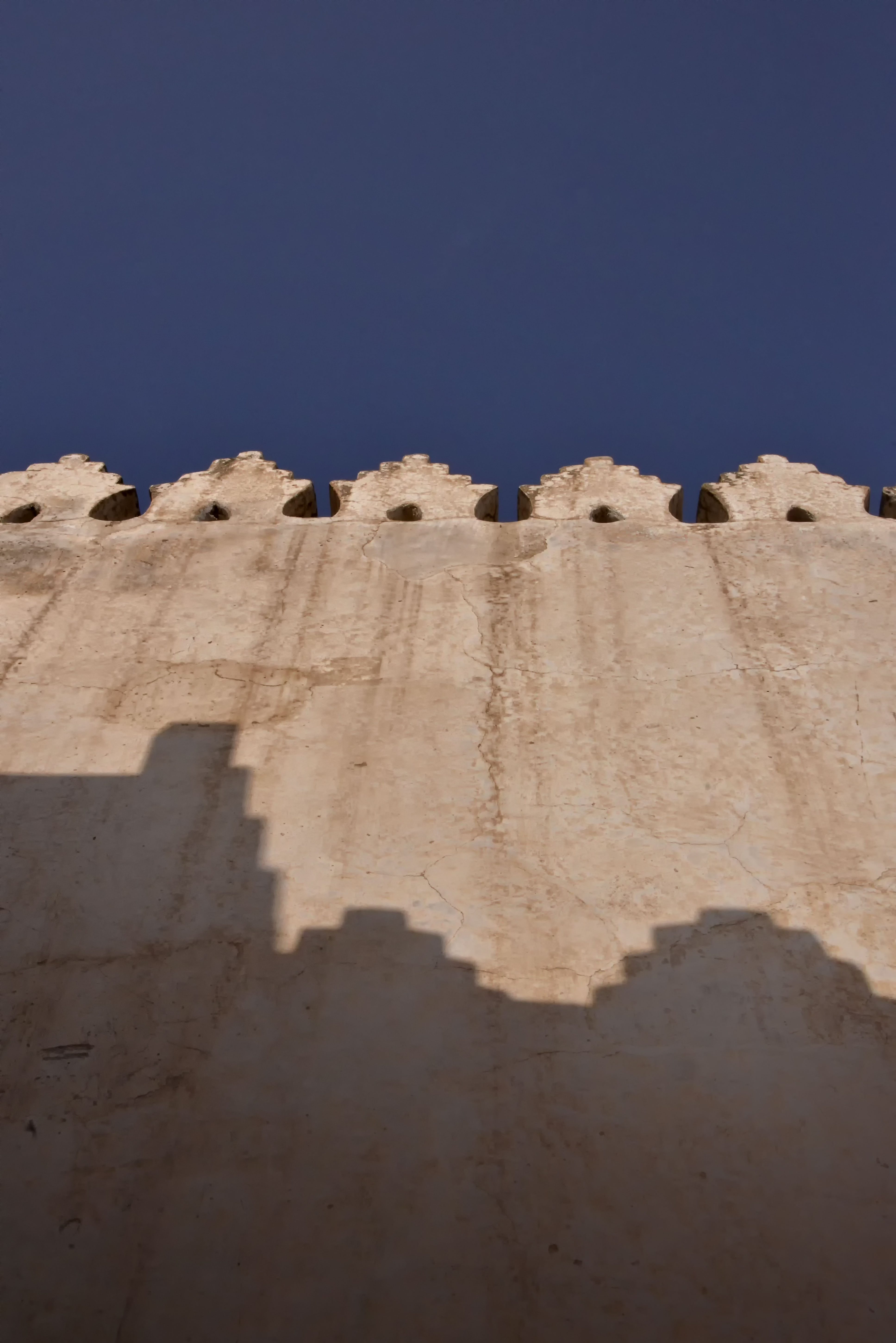 Shadows, Yemen